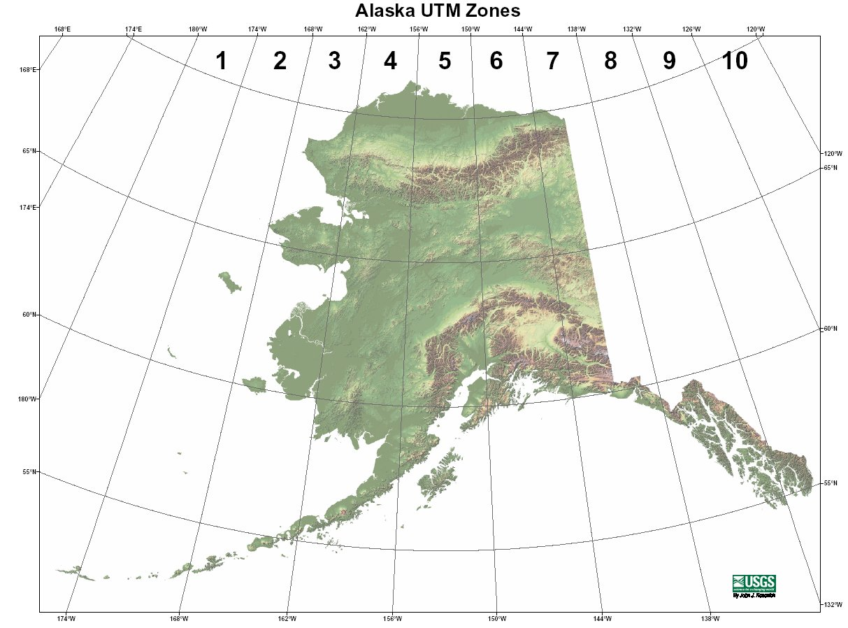 UTM Zones of Alaska